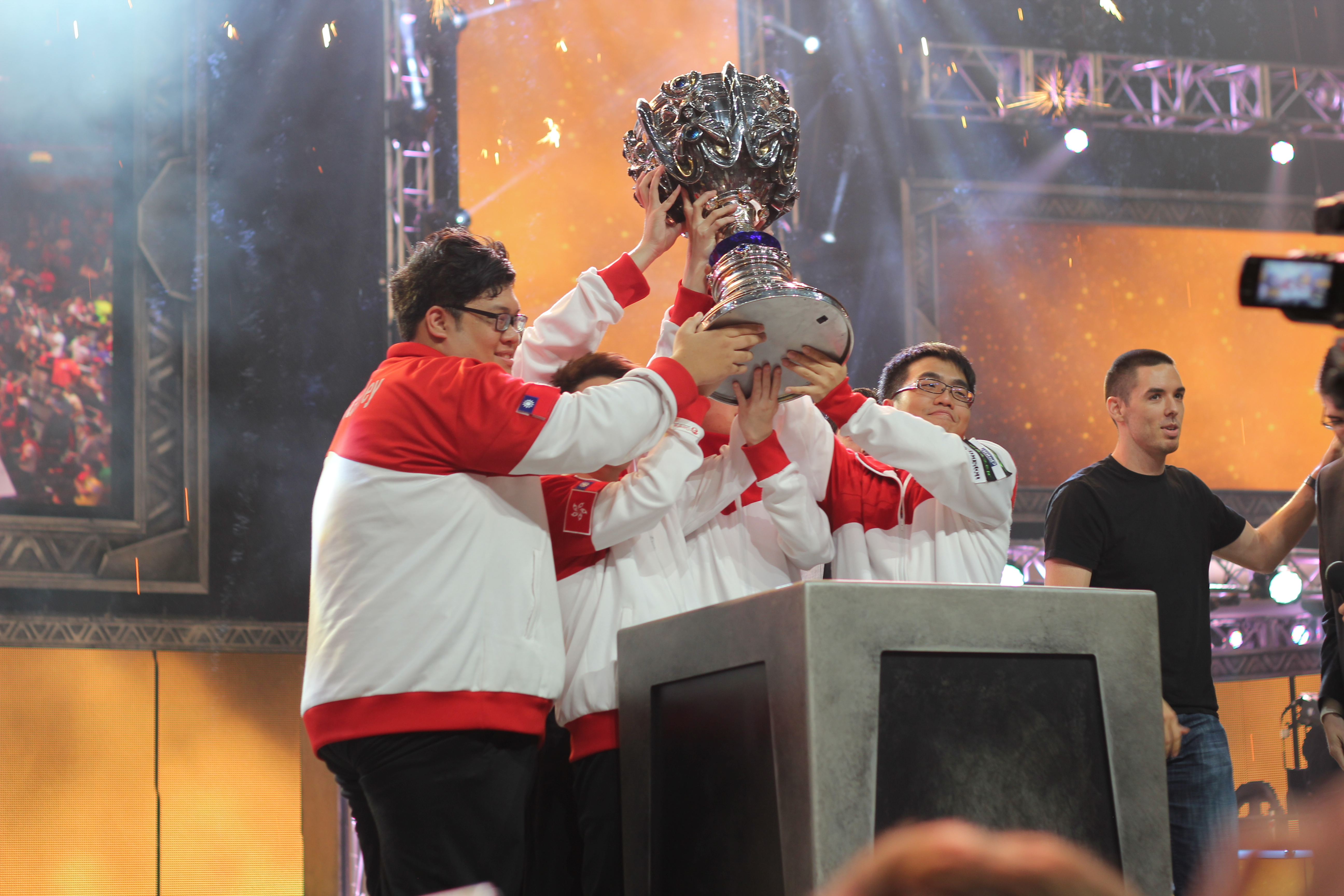 League of Legends players of the team Taipei Assassins at the League of Legends World Championship